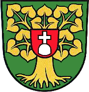 Coat of arms of Helmsdorf